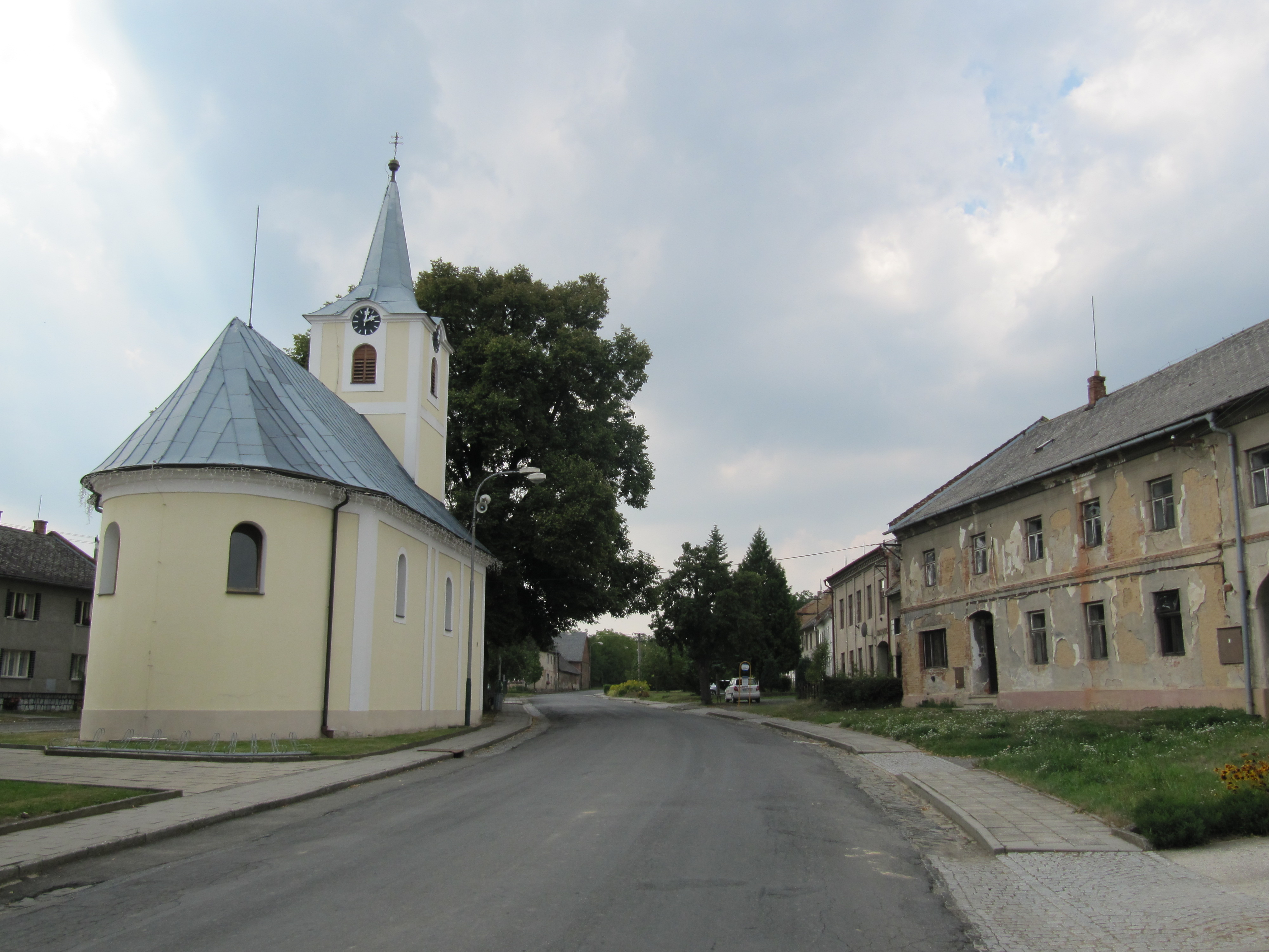 Senička in Olomouc District, Czech Republic. Village green with the Chapel of the Guardian Angels.